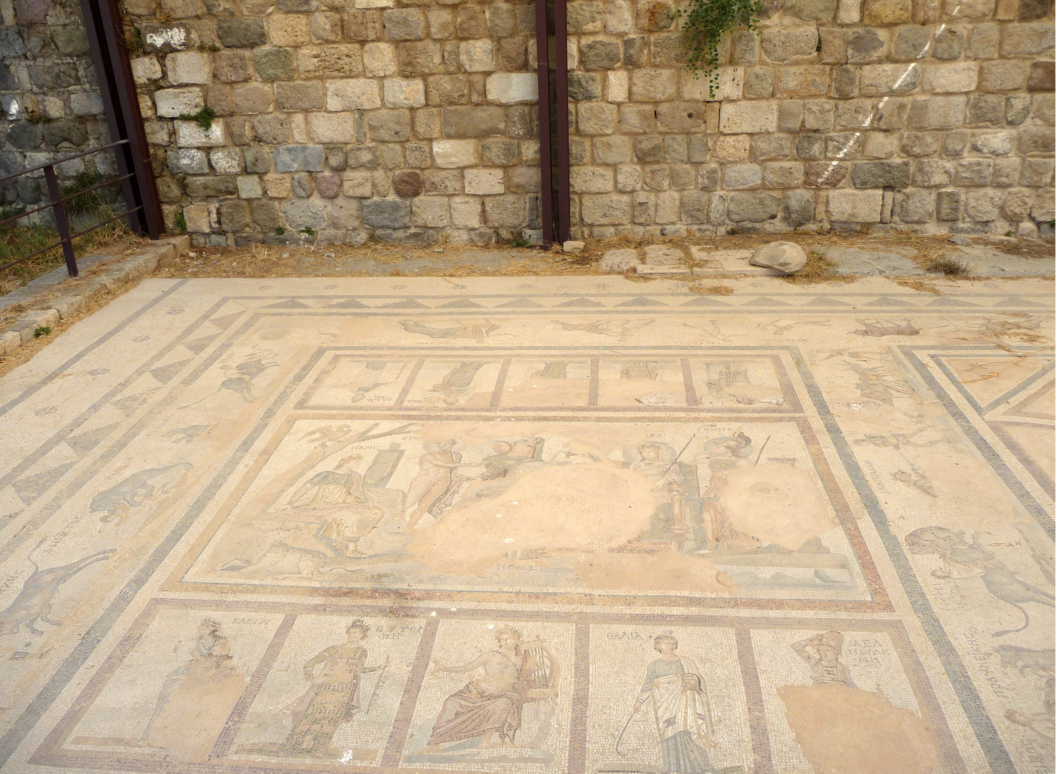 An Ancient Roman mosaic depicting the Judgement of Paris in the Western Archaeological Zone of Kos town.